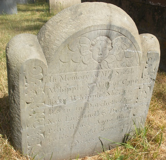 Tombstone for Sarah Whipple, wife of early Providence settler John Whipple, North Burial Ground, Providence, Rhode Island, USA